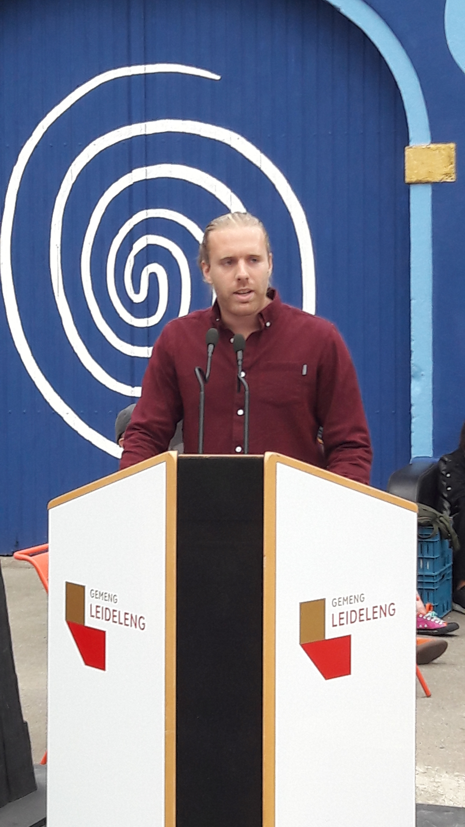 Raphael Gindt, urban artist and politician in Leudelange, 2019